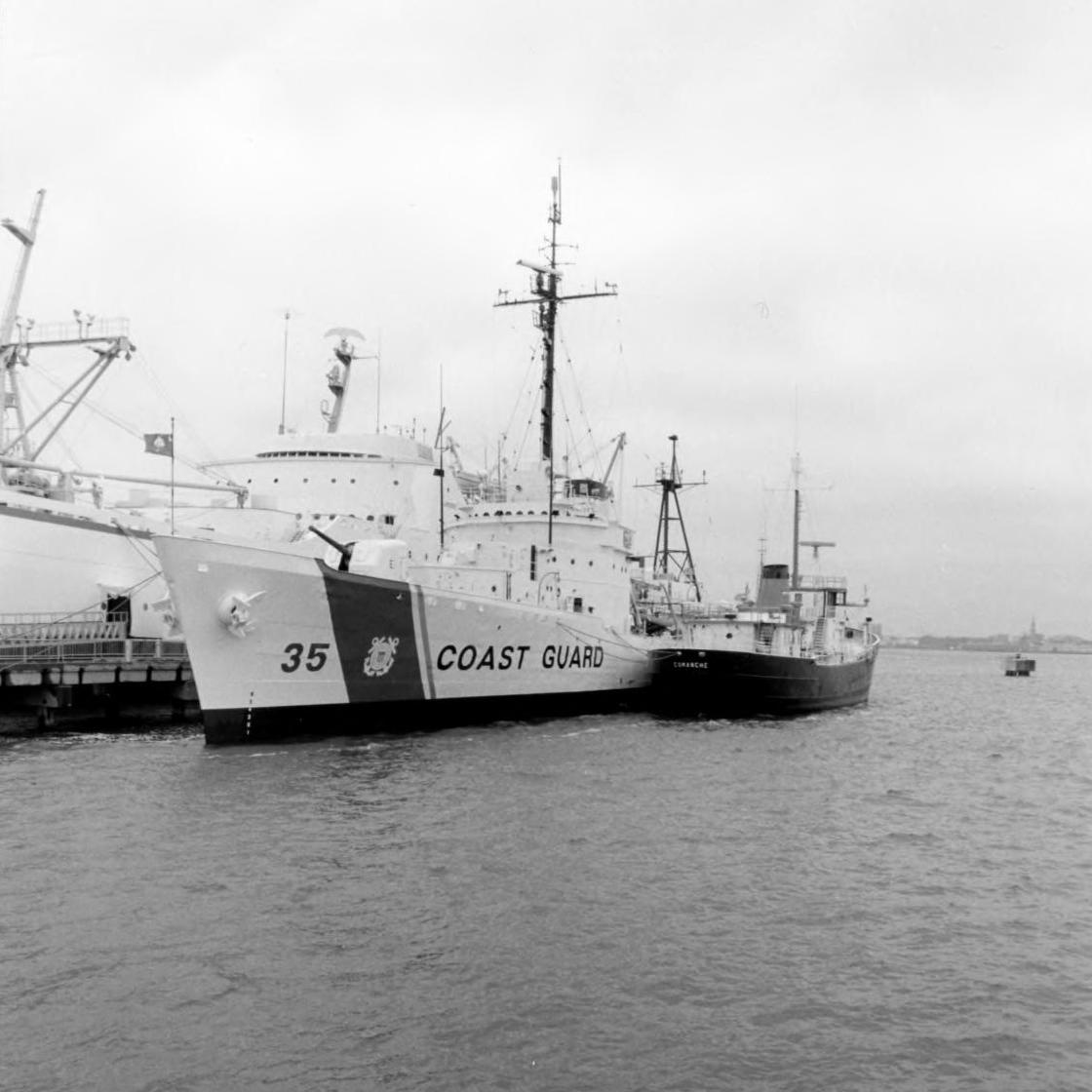 U.S.C.G.C. INGHAM as a museum vessel at Patriots Point, South Carolina, courtesy NPS National Maritime Initiative. Cropped in 2008 to remove text label (essentially the preceding text) from picture and for appearance.